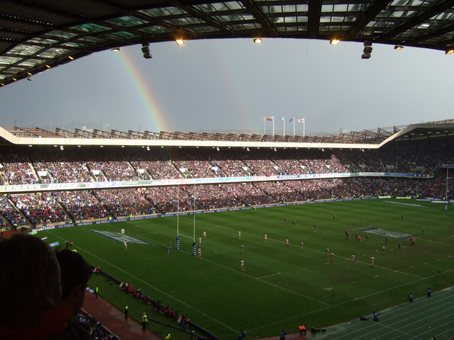 A pot of gold... ...at the end of each rainbow, they say. A double rainbow allowed Scotland to take gold at the 2008 Six Nations Championship.